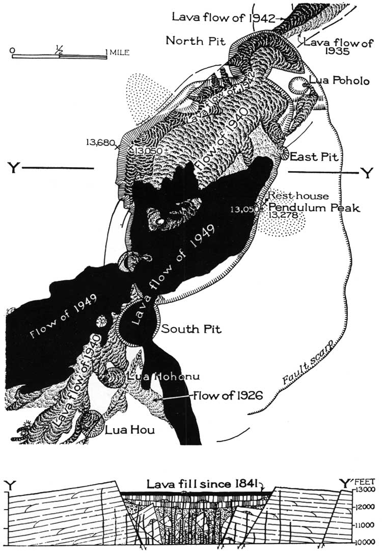 Map of lava flows from the summit of Mauna Loa, Mokuaweoweo. From "Volcanoes of the National Parks of Hawaii" by Gordon Macdonald and Douglass Hubbard, Originally published 1951